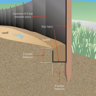 Illustration of a silt fence installation detail, from U.S. EPA publication, "Developing Your Stormwater Pollution Prevention Plan: A Guide for Construction Sites." Document No. EPA-833-R-060-04.